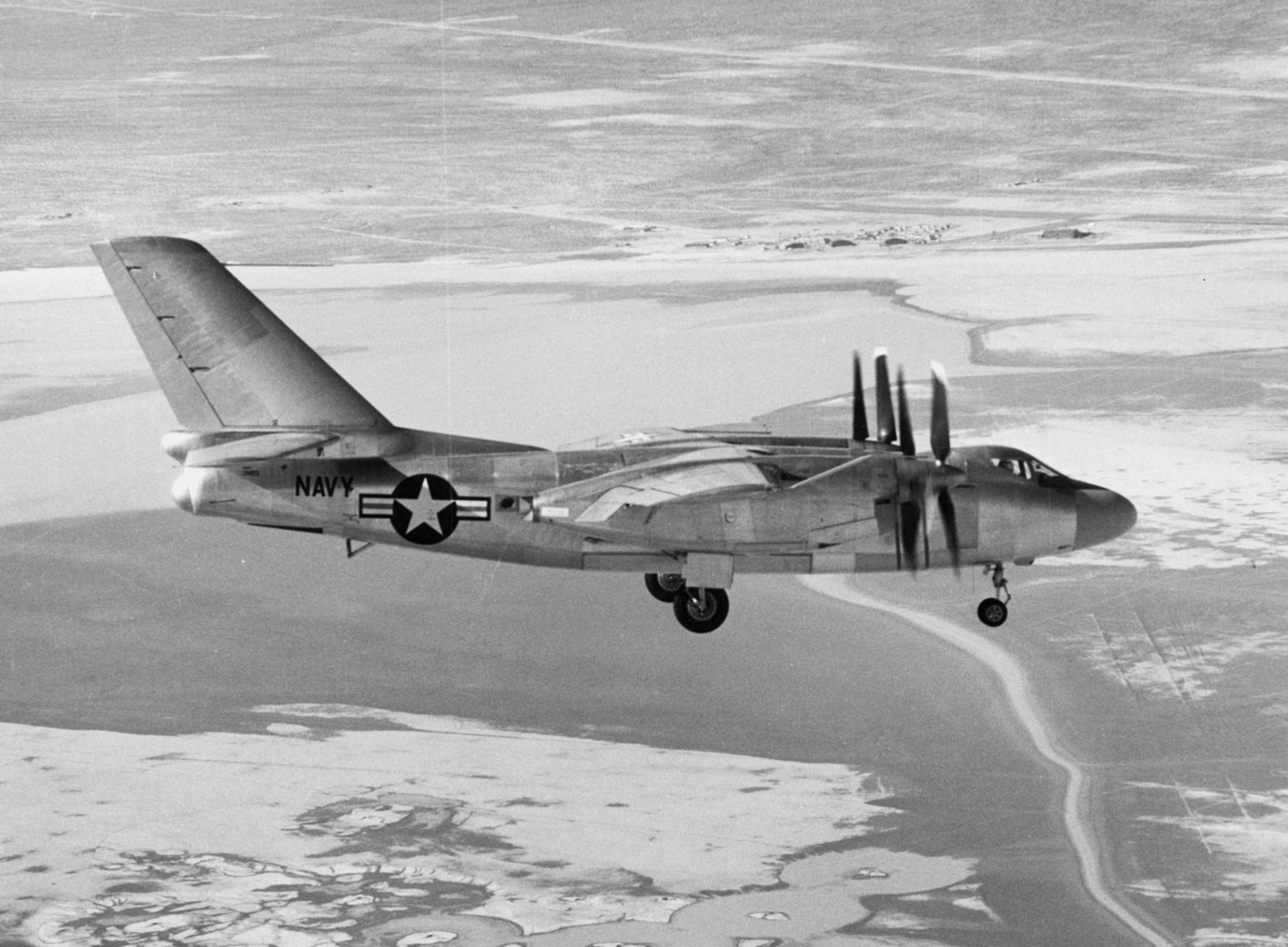 The U.S. Navy North American XA2J-1 Super Savage (BuNo 124439) during its first flight at Edwards Air Force Base, California (USA), on 4 January 1952.